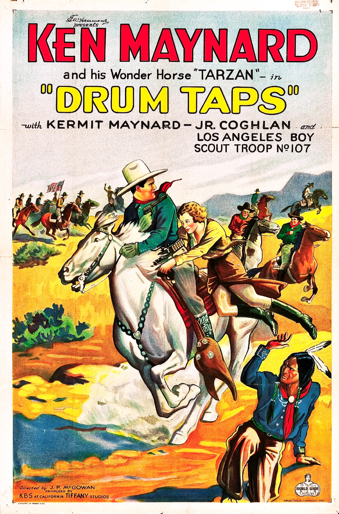 Poster for the 1933 film Drum Taps. The item has no copyright markings on it as can be seen in the links above. At lower left is Country of origin USA At lower right is a logo for Worldwide Pictures and Morgan Litho Company, Cleveland, USA 16614-they printed the poster.